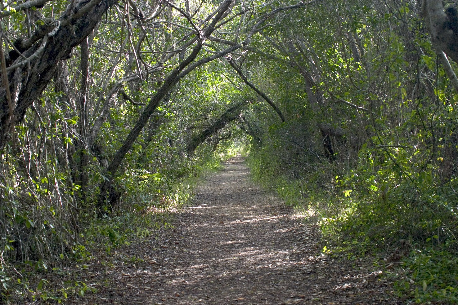 Snake Bight 01, NPSphoto